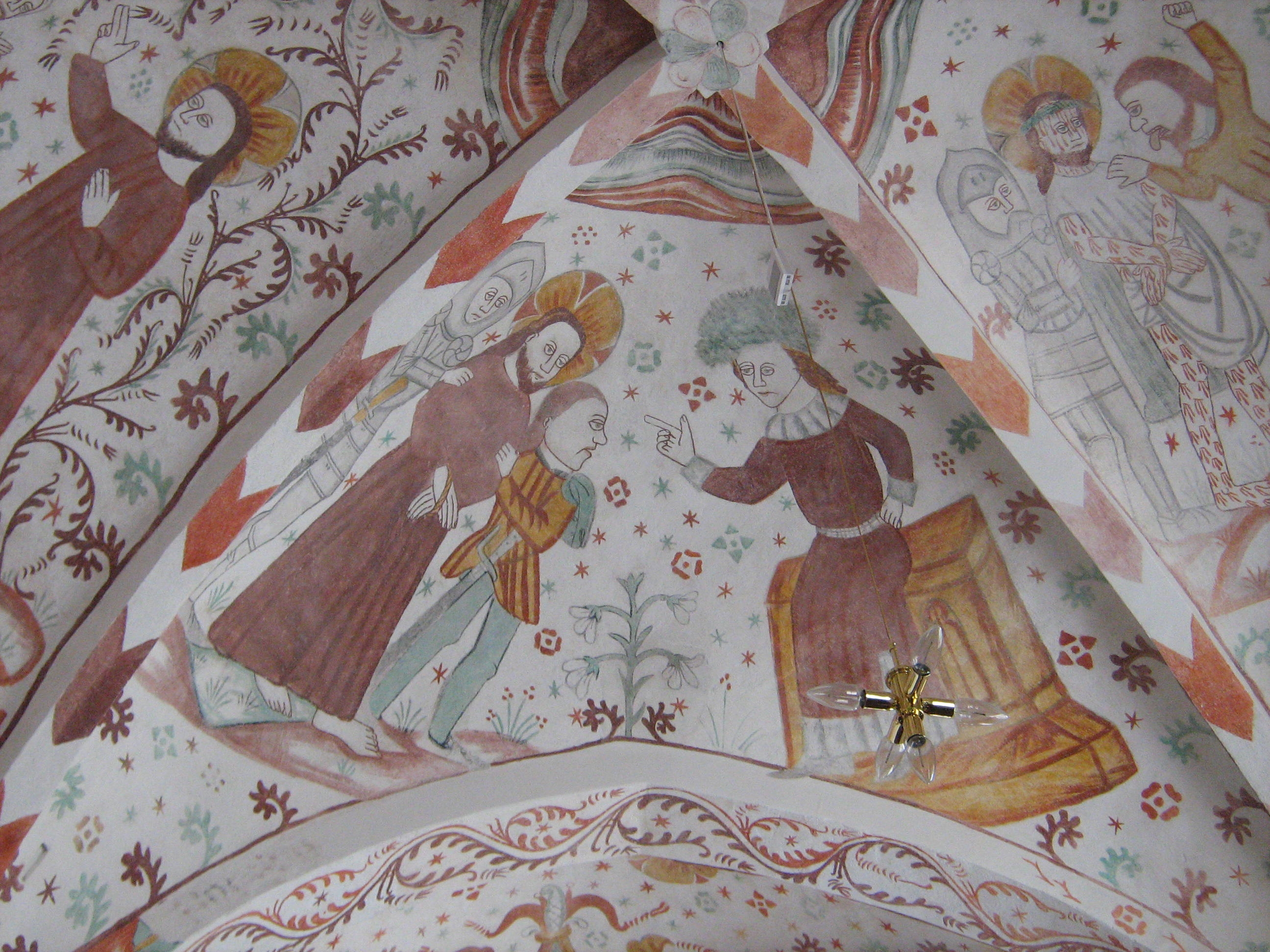 Fanefjord Church, Møn, Denmark. Fresco of Jesus before high priest.